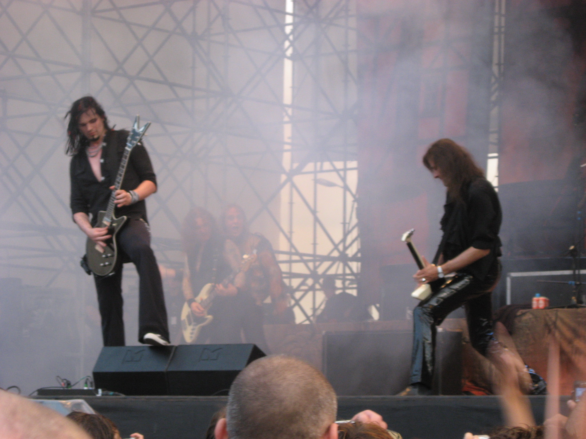 Helloween at Rockin' field festival at Milan (26 July 2008)